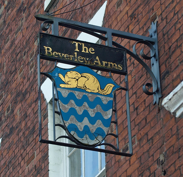 Coat of arms of the borough of Beverley: Argent, three bars wavy Azure; on a chief Azure, a beaver with its head turned and biting at its fur, Or. The Sign of The Beverley Arms, Beverley, East Riding of Yorkshire, England.The Beverley Arms TA0339 : The Beverley Arms, 25 North Bar Within is situated at 25 North Bar Within.